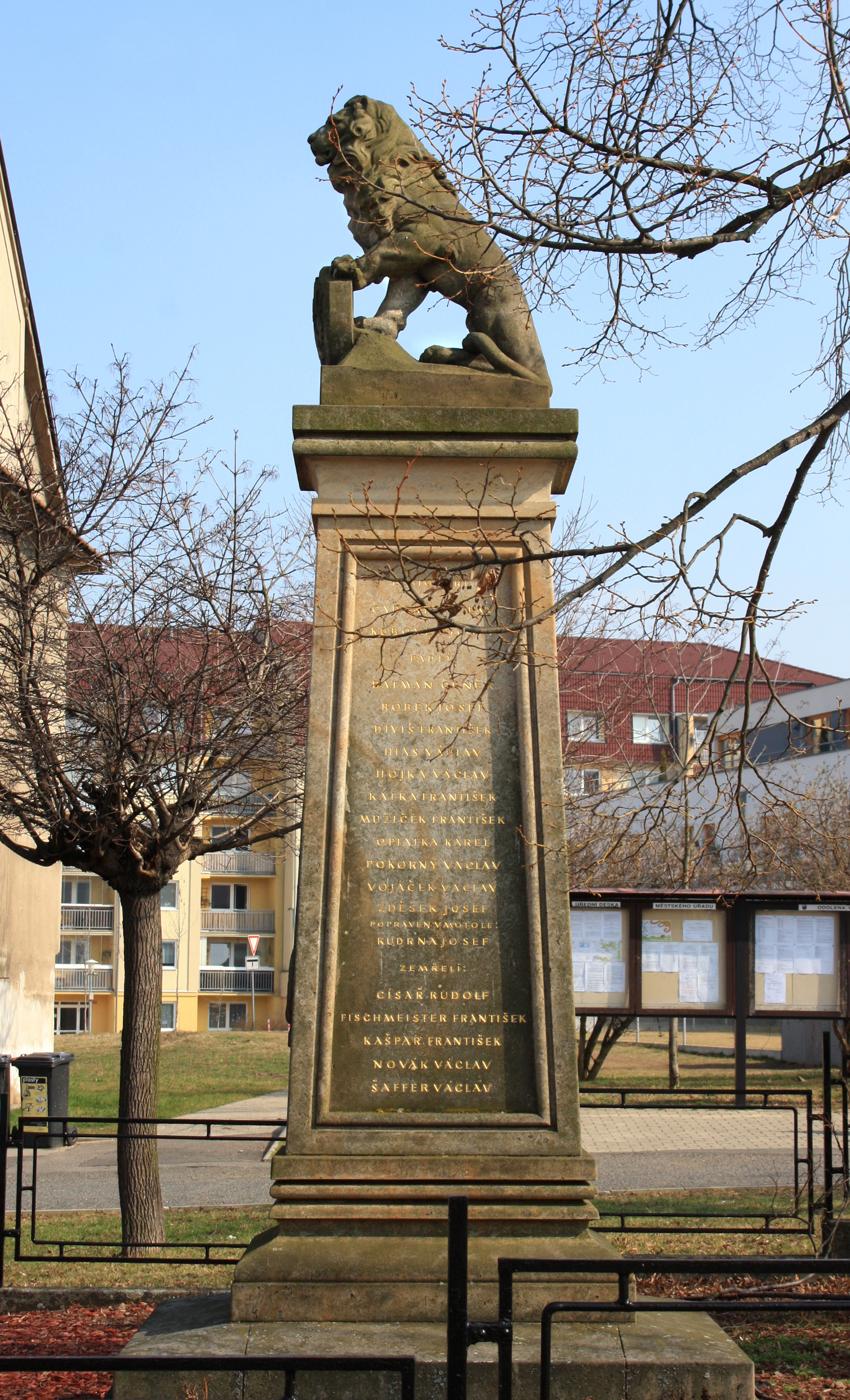 World War I and II memorial in Odolena Voda, Czech Republic